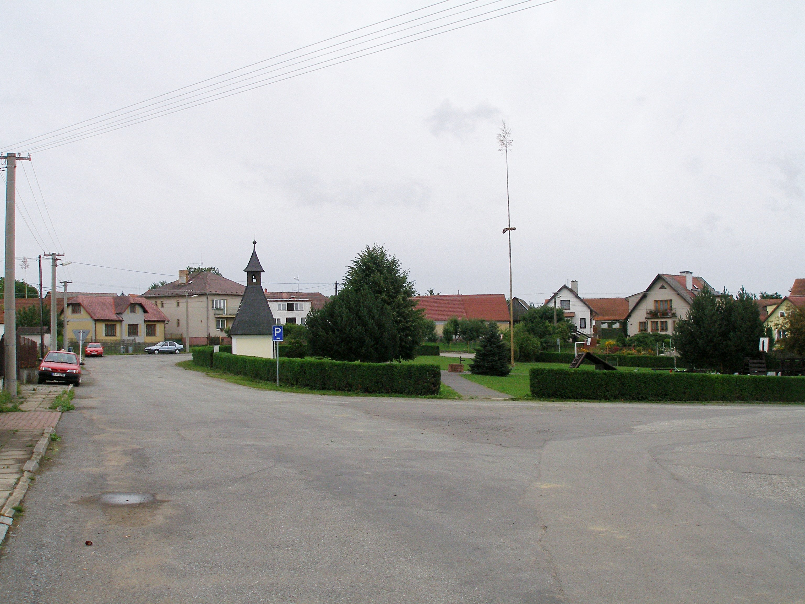 Bratřice - the square